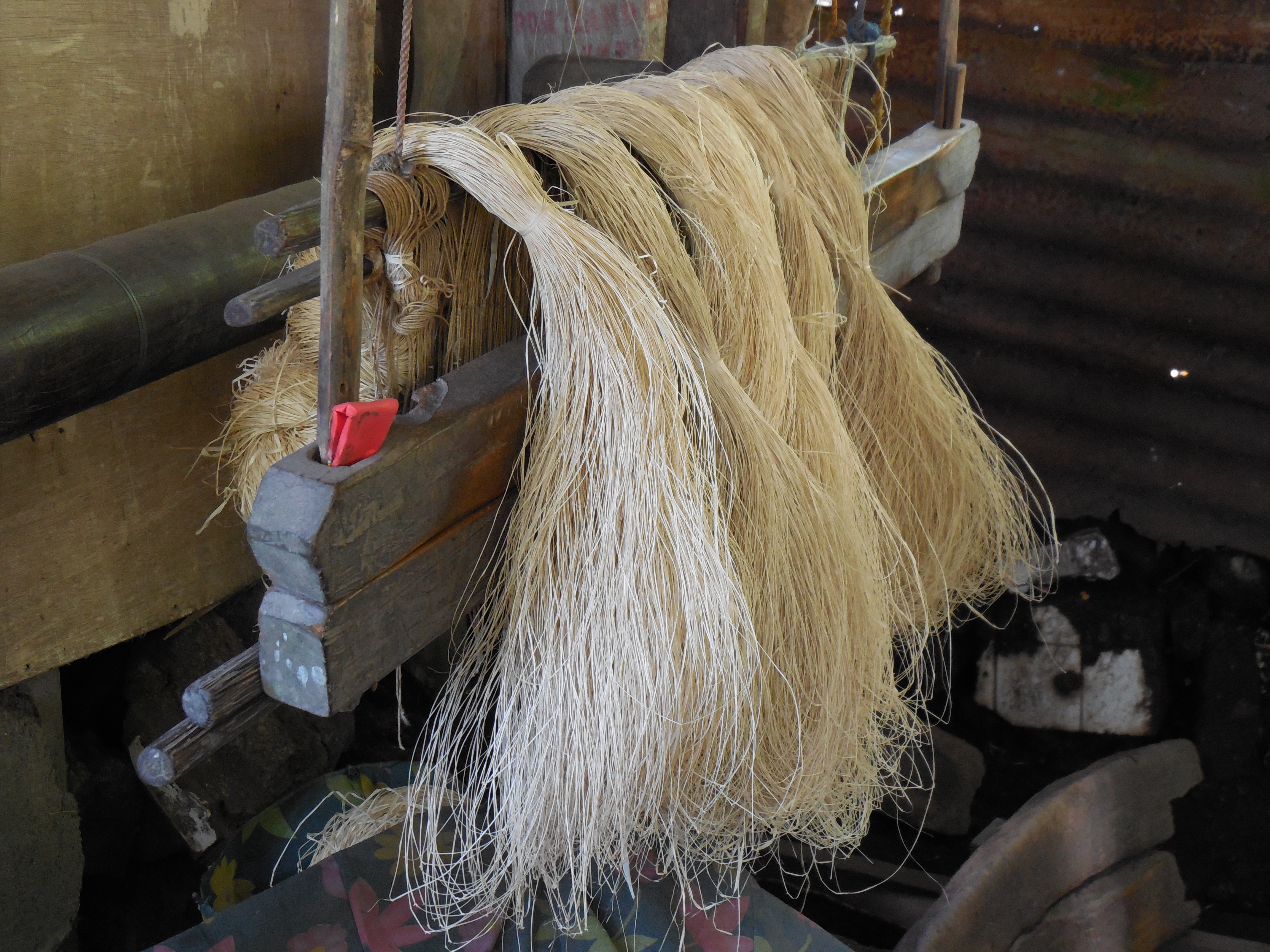 Abaca fibers and weaving loom in Banton, Romblon.